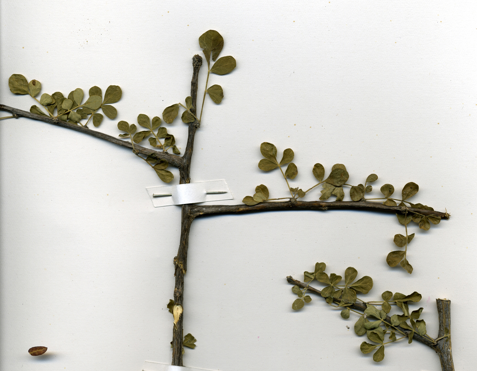 Herbarium specimen (FT) of Boswellia microphylla from Ethiopia